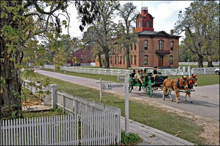 A horse and carriage riding through old Washington.